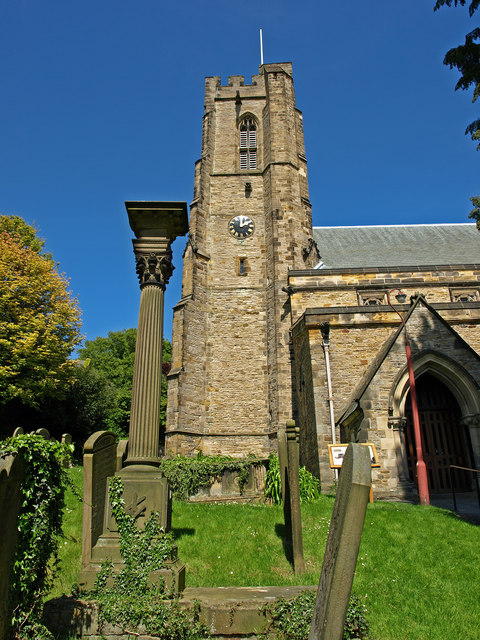 Parish Church of St. Mary the Virgin, Richmond, North Yorkshire, Great Britain. Interesting Masonic pillar in foreground. Thought to be the memorial associated with Matthew Greathead, 1770-1871.